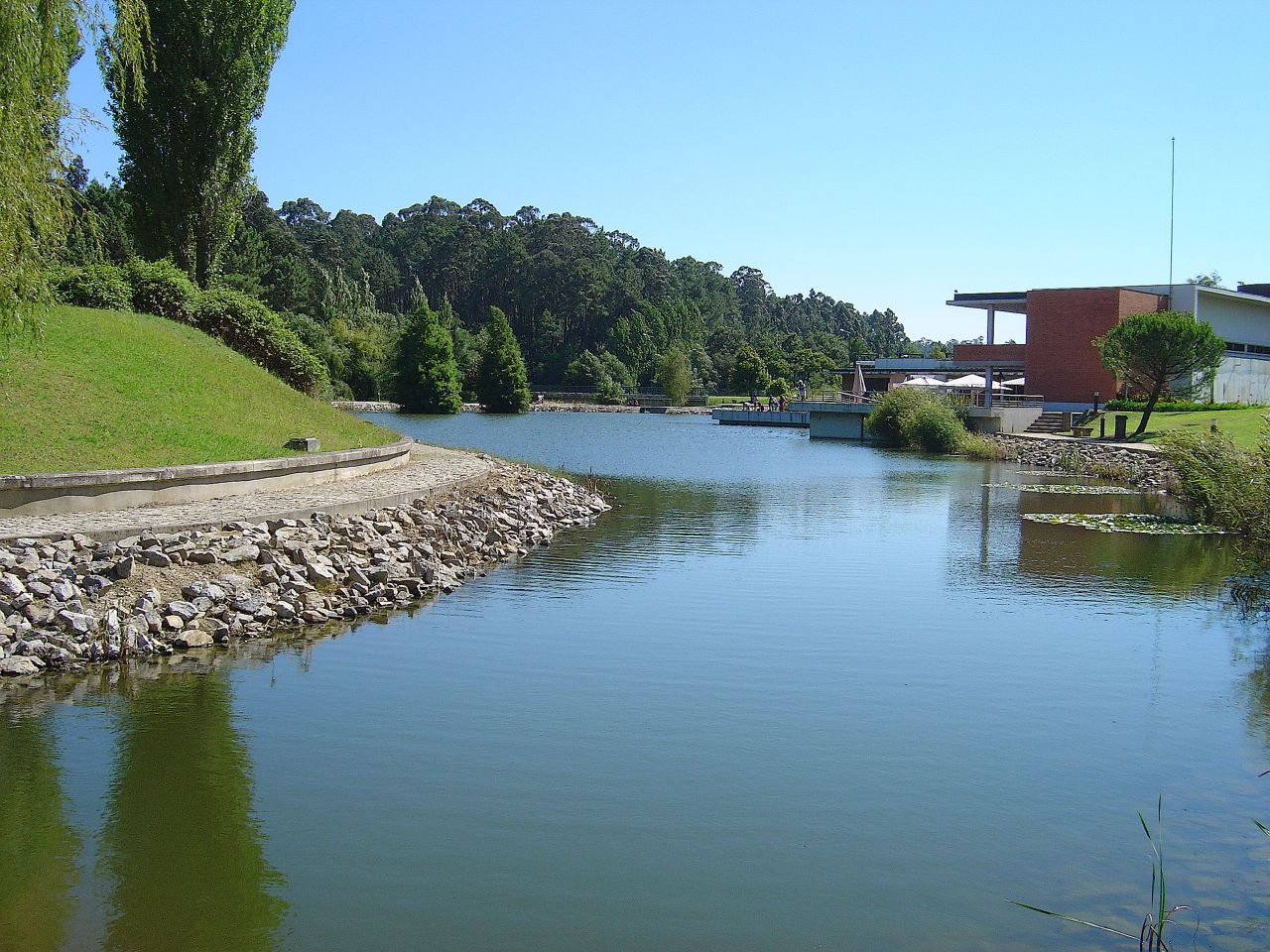 See where this picture was taken. [?]